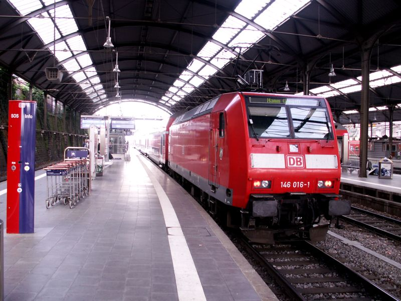 RE 1 - NRW-Express in Aachen Central Station